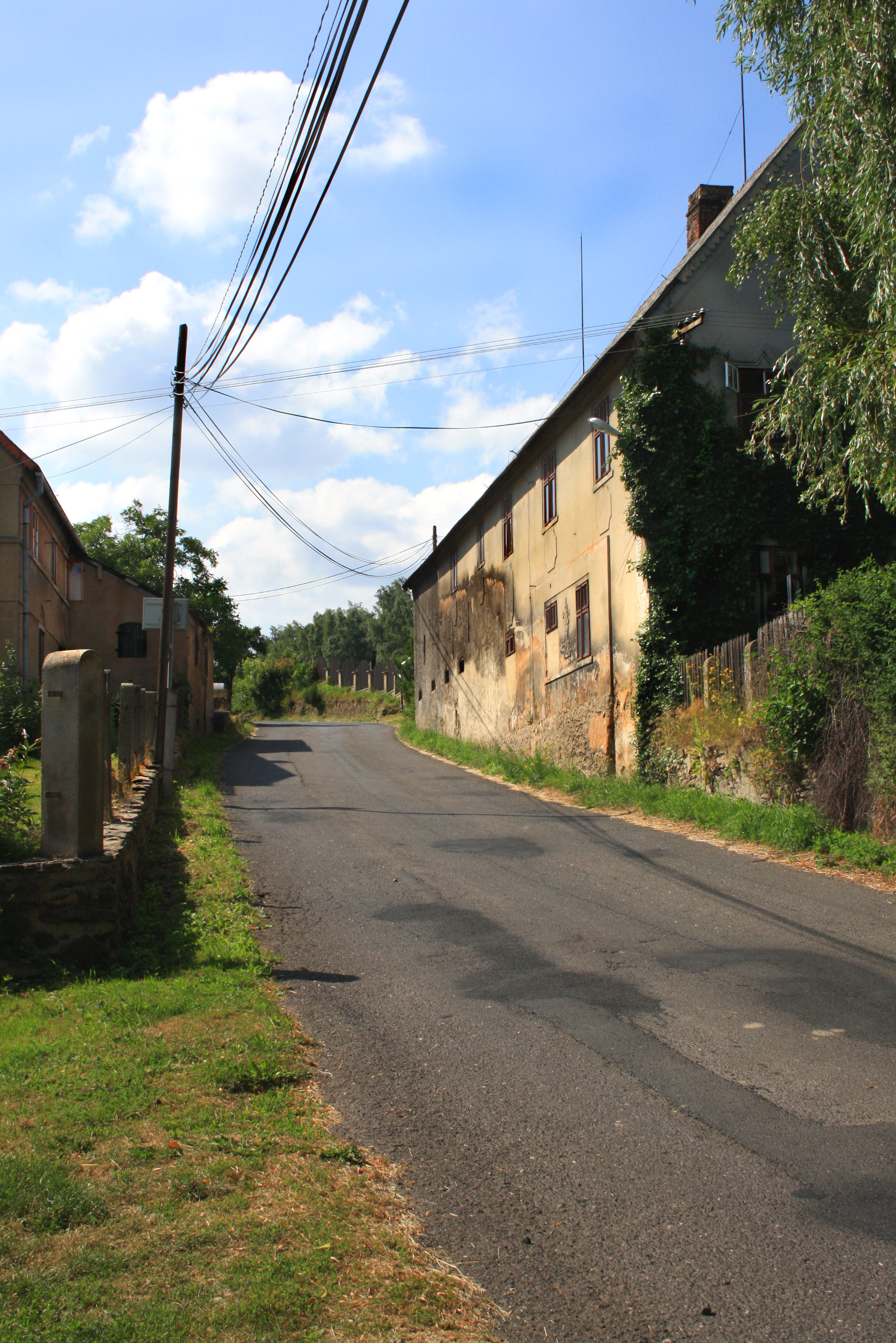 Main road in Šerchov, part of Blatno, Czech Republic